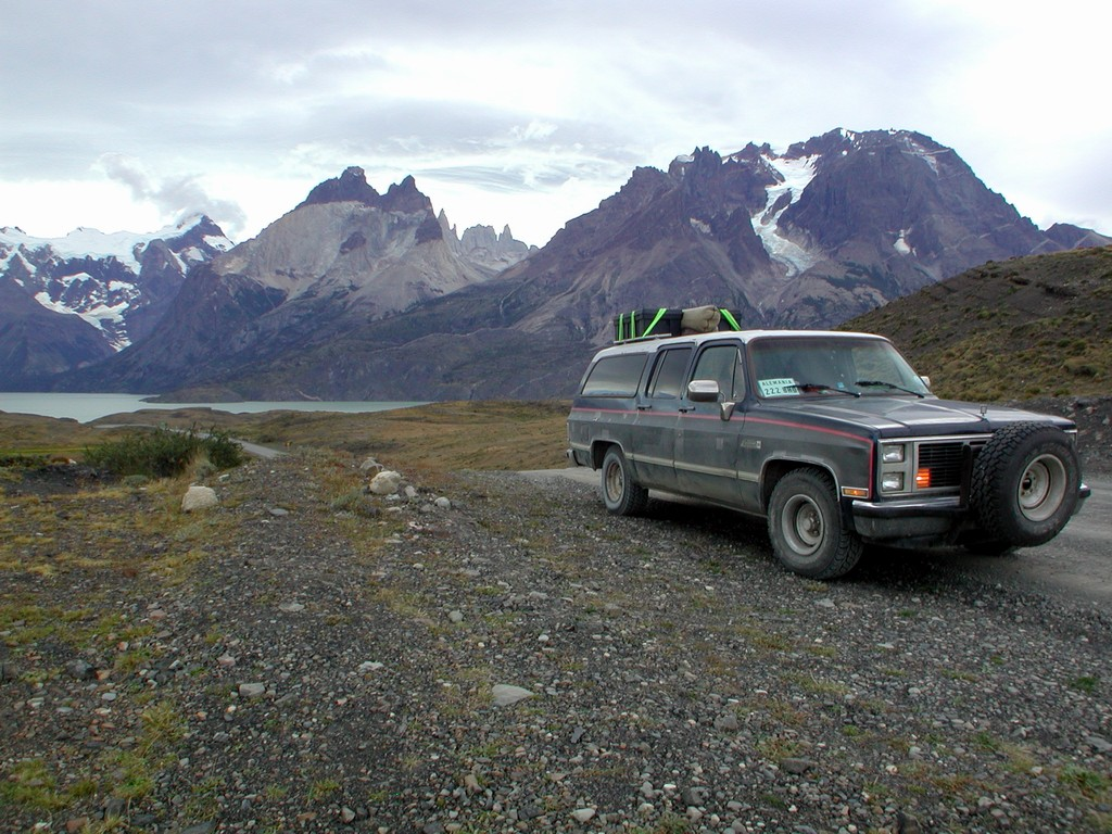 This GMC Suburban / Sierra classic 1500 make:1986, has made it from Deadhorse, Alaska to Ushuaia, Argentina - i.e. all of the Panamericana. Shown in front of Torres del Paine.